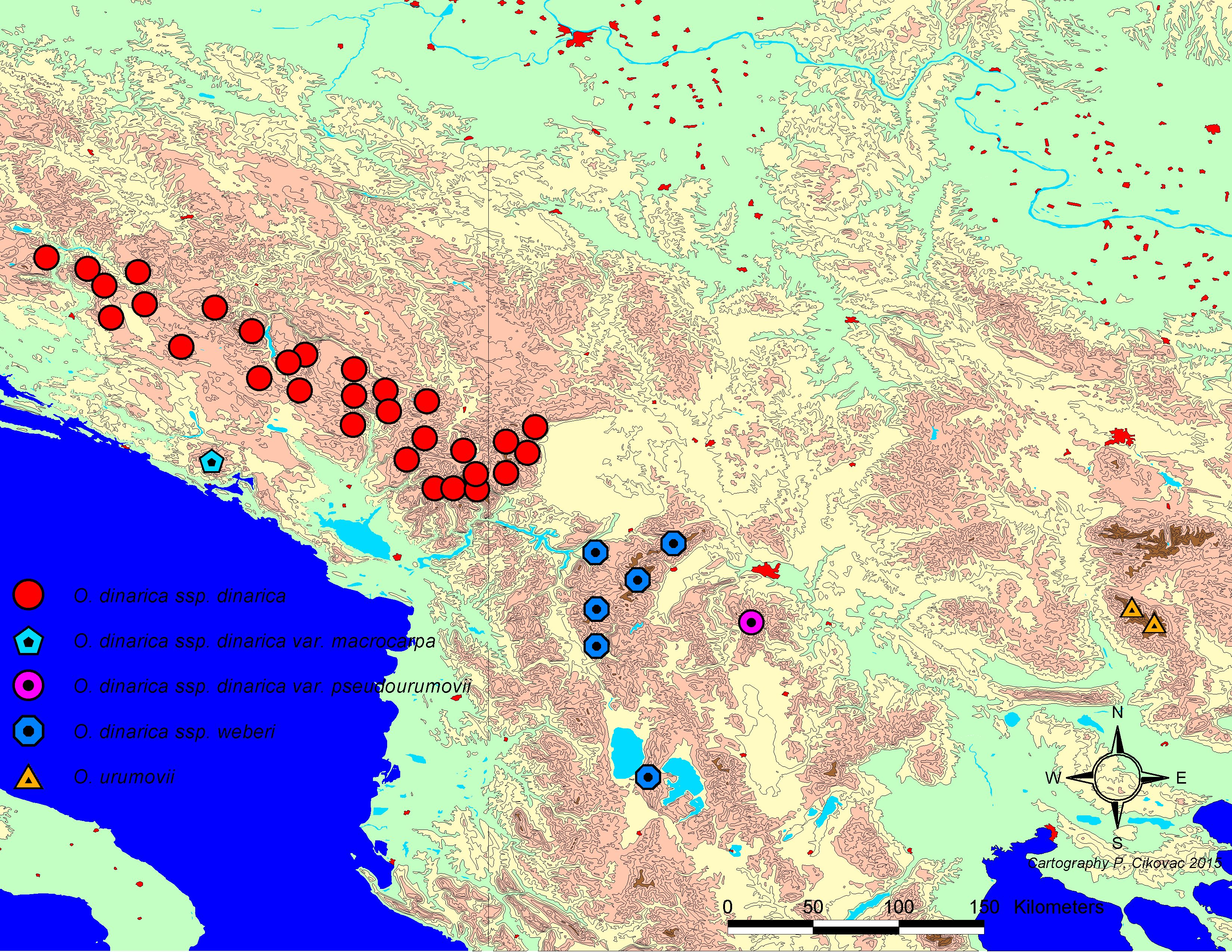 Distributional map endemic Oxytropis in the Balkans after Chrtek & Chrtková 1982